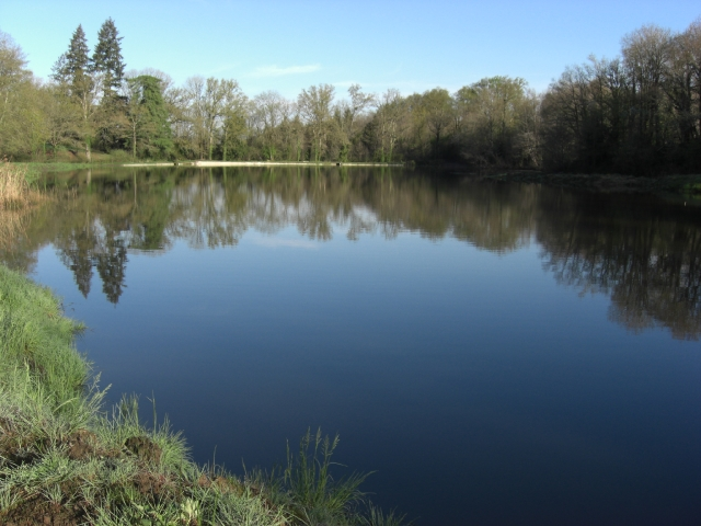 One of the Puyravaud Lakes